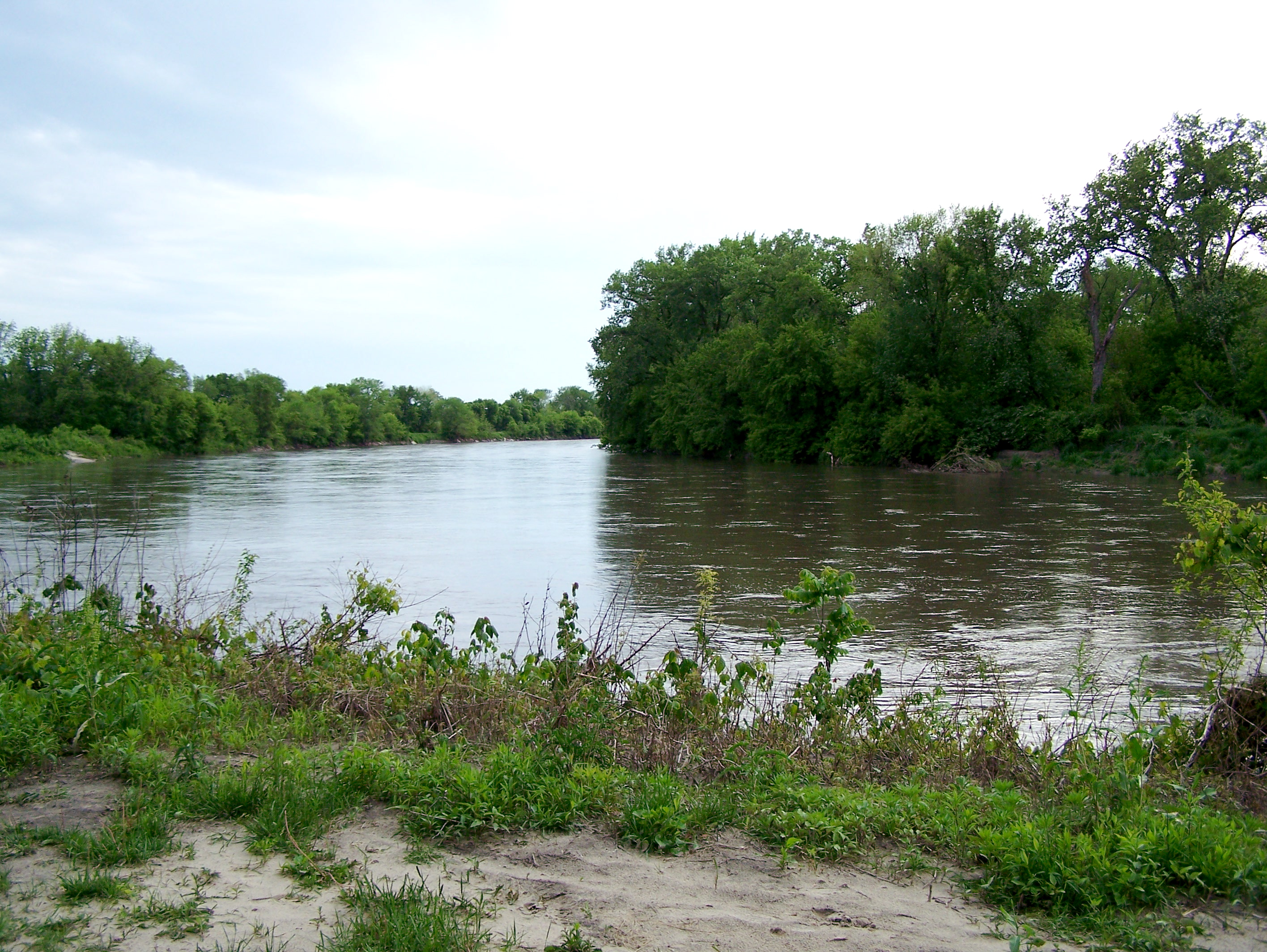 The Raccoon River from Walnut Woods State Park in West Des Moines, Iowa.